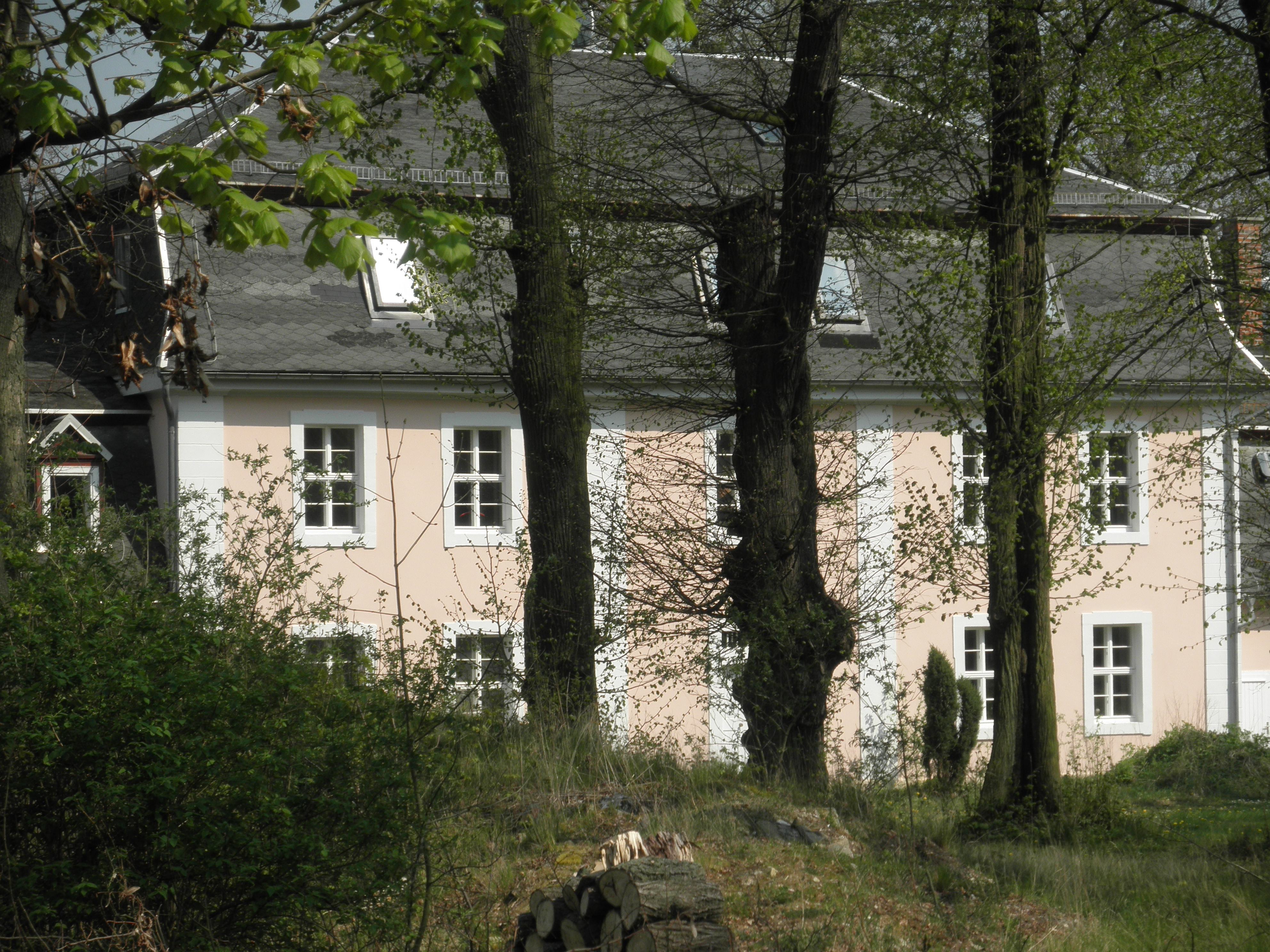 Manor House in Tännich in Thuringia